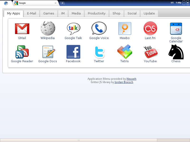 ChromiumOS Flow menu (play on VMware Player).